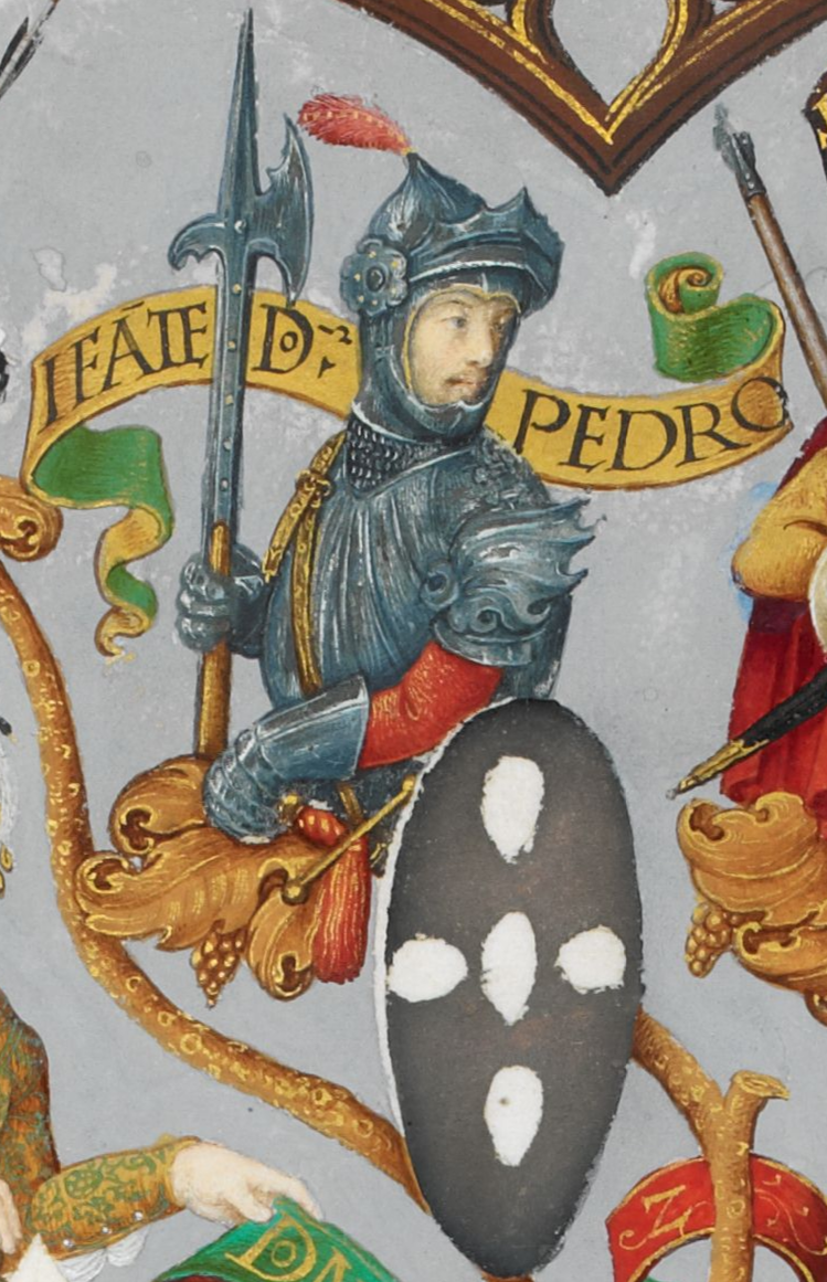 Peter (1187-1258), Infante of Portugal, son of King Sancho I of Portugal, in a 16th-century miniature.